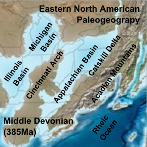 Portion of global paleogeographic reconstruction of the Earth in the middle Devonian period 385 million years ago, showing Eastern North America with key features labeled